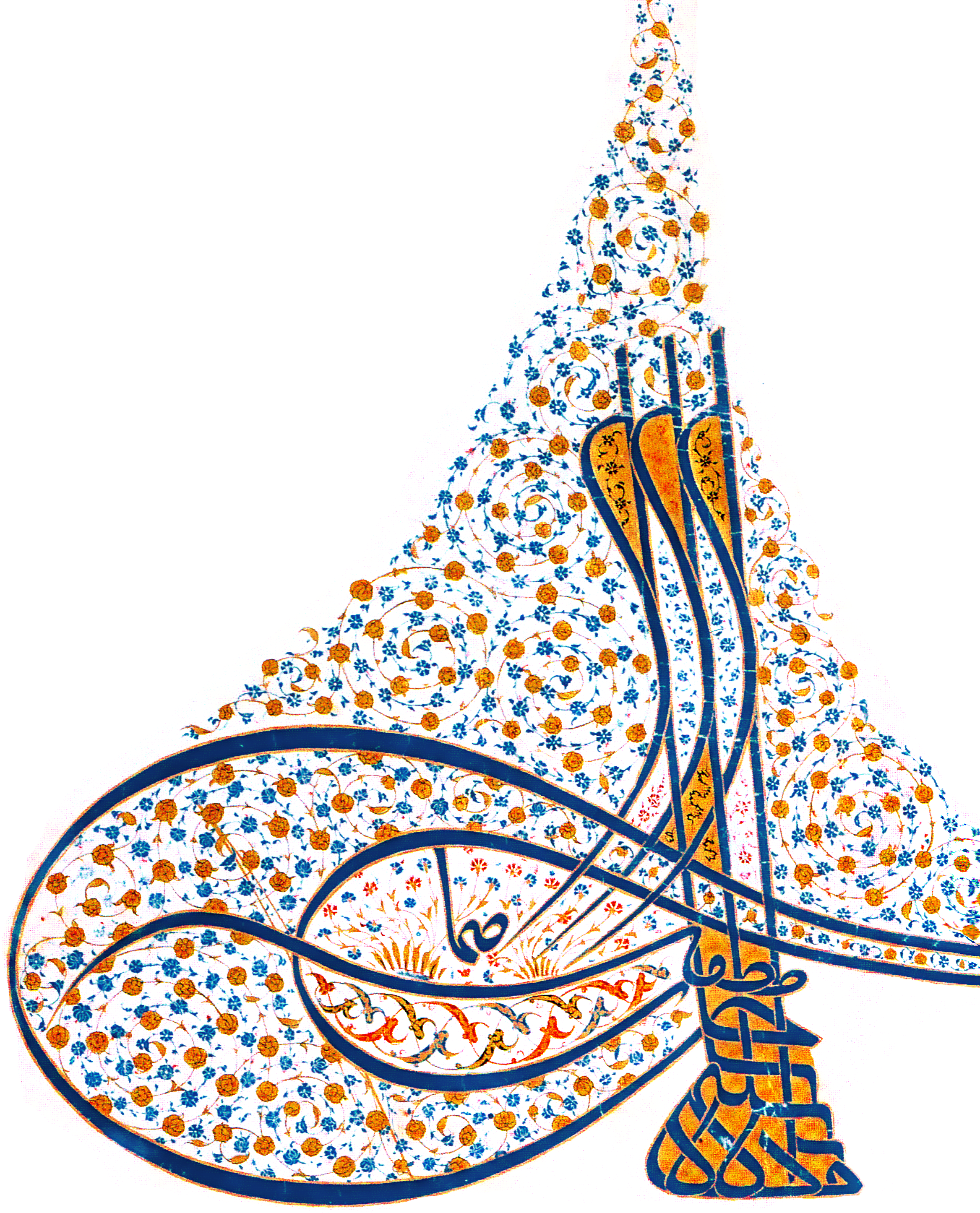 Ottoman tughra dating from the reign of Murad III.